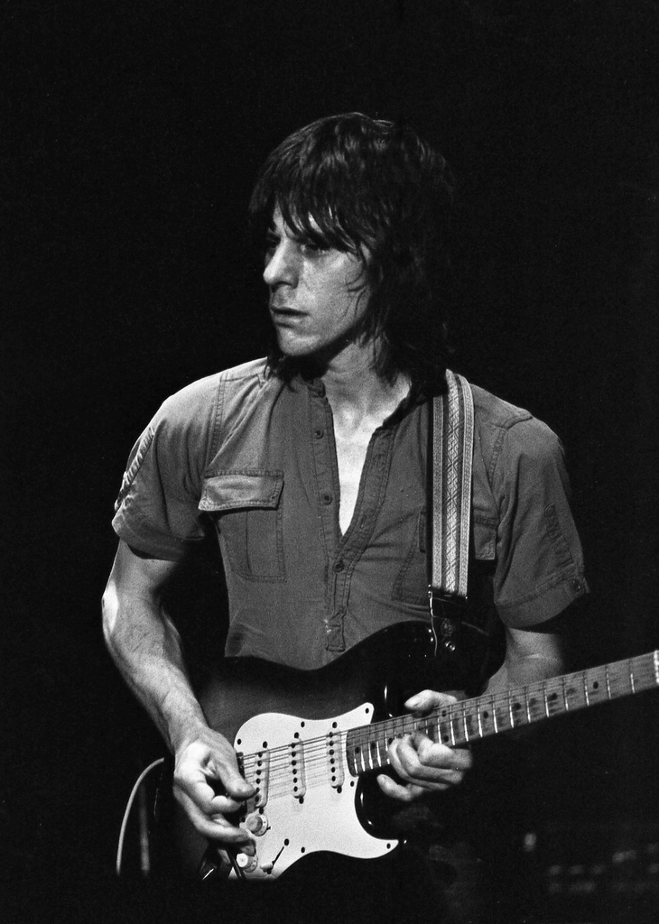 Jeff Beck, Jaap Eden Hal, Amsterdam 5-7-1979